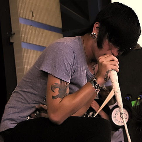 Blessthefall Warped Tour 2007 Milwaukee